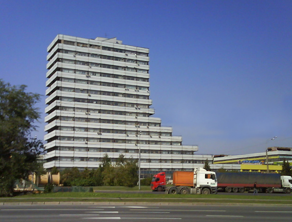 One of PSTGU university buildings (Russia, Moscow, Ozernaya str., 42